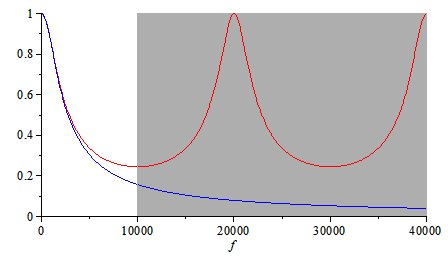 Analog (blue) and digital (red) amplitude responses of first order low pass system. The digital case is obtained using the impulse invariance method.